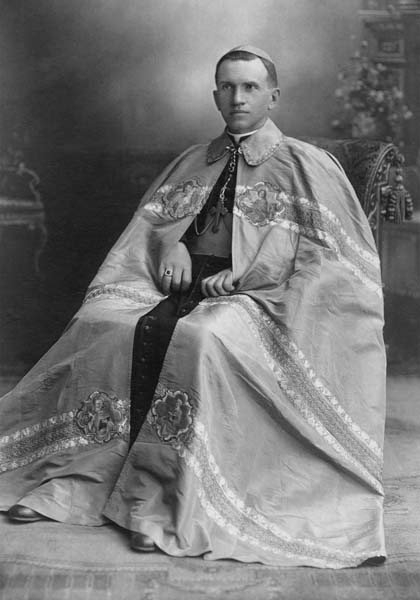 Nykyta Budka (1877 -1949) - clergyman of the Ukranian Catholic Church, beatified